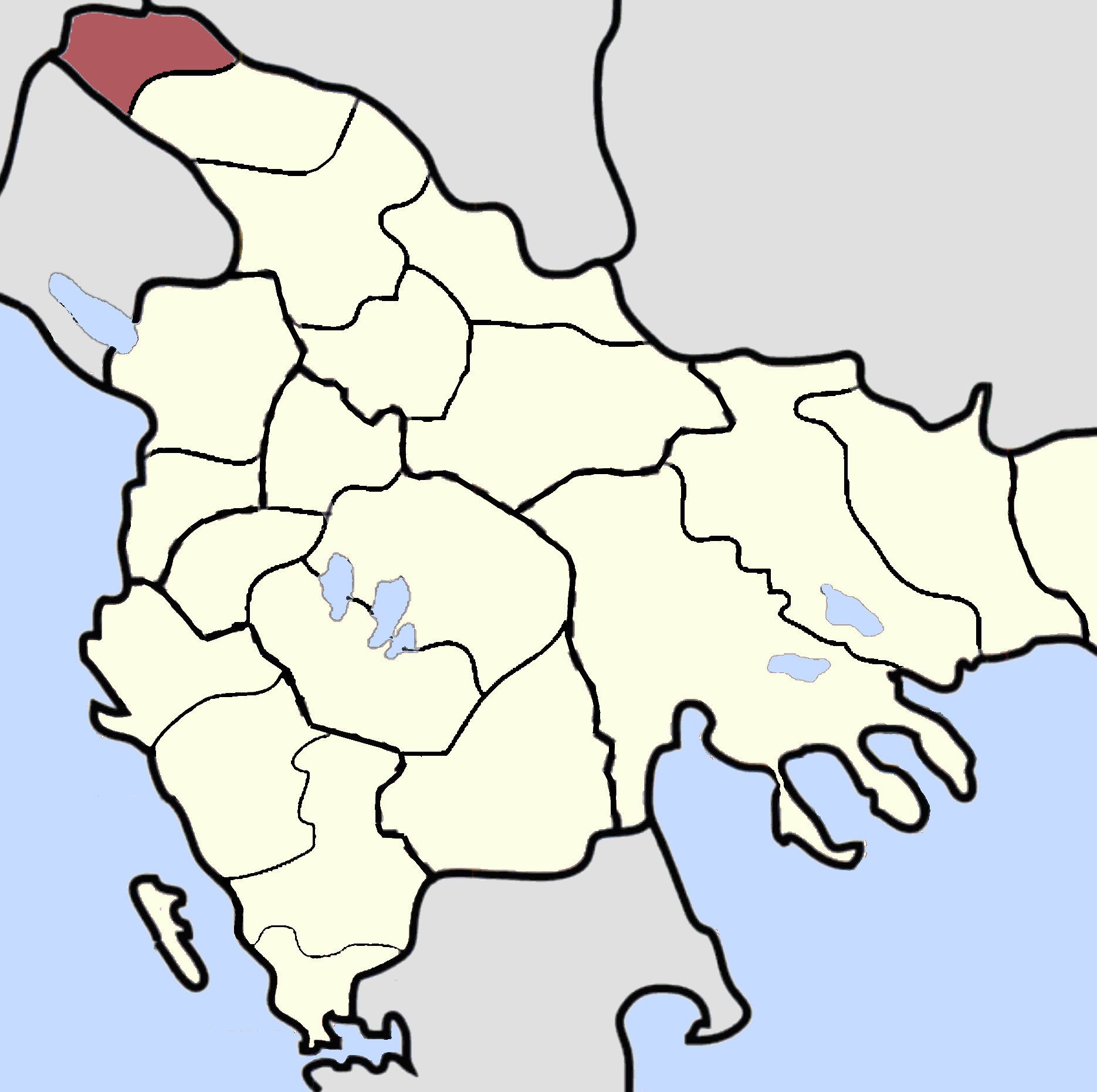 XY Sanjak, Ottoman Empire (late 19th century). Source: The Crescent and the Eagle- Ottoman Rule, Islam and the Albanians, 1874-1913 at Google Books By George Gawrych